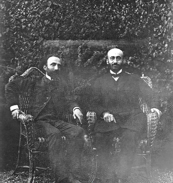 Komitas Vartabed and Arshag Chobanian in Gevrek summer house, 17 August 1907.